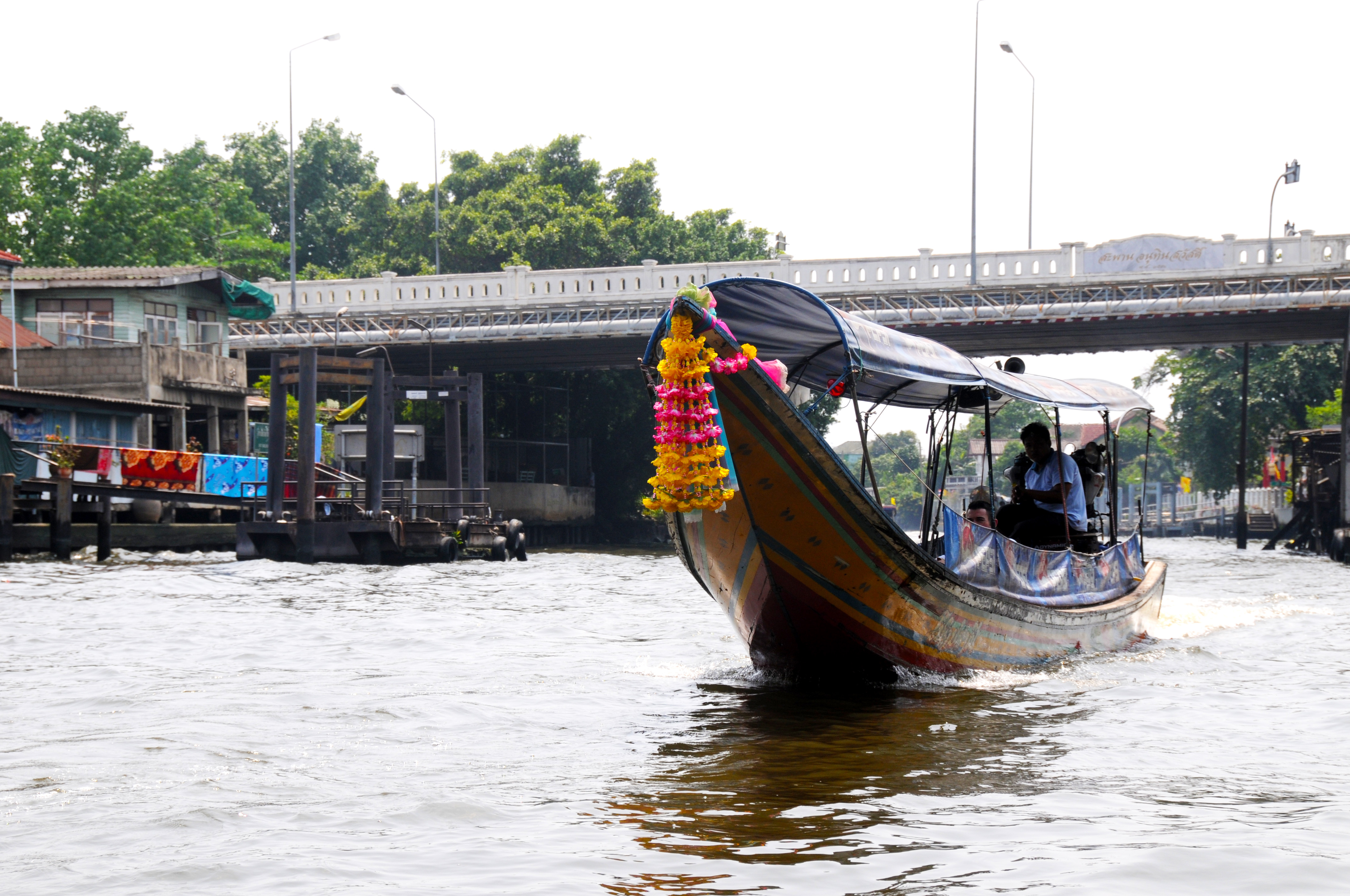 Bangkok canals Khlongs in the Thon Buri district